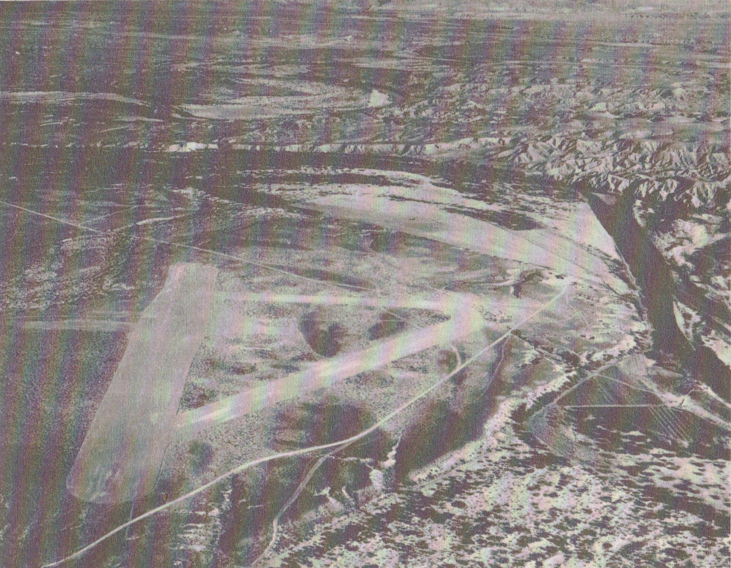 1932 aerial view of the Johnson's Ranch Airfield in the Big Bend region of West Texas. The large cottonwood tree visible at the far right, next to the river and adjacent to the ranch headquarters, was where the Mexican bandits that raided the ranch in 1929 assembled under. Scan from page 127 "Wings Over the Mexican Border" (1984) by Kenneth Baxter Ragsdale.